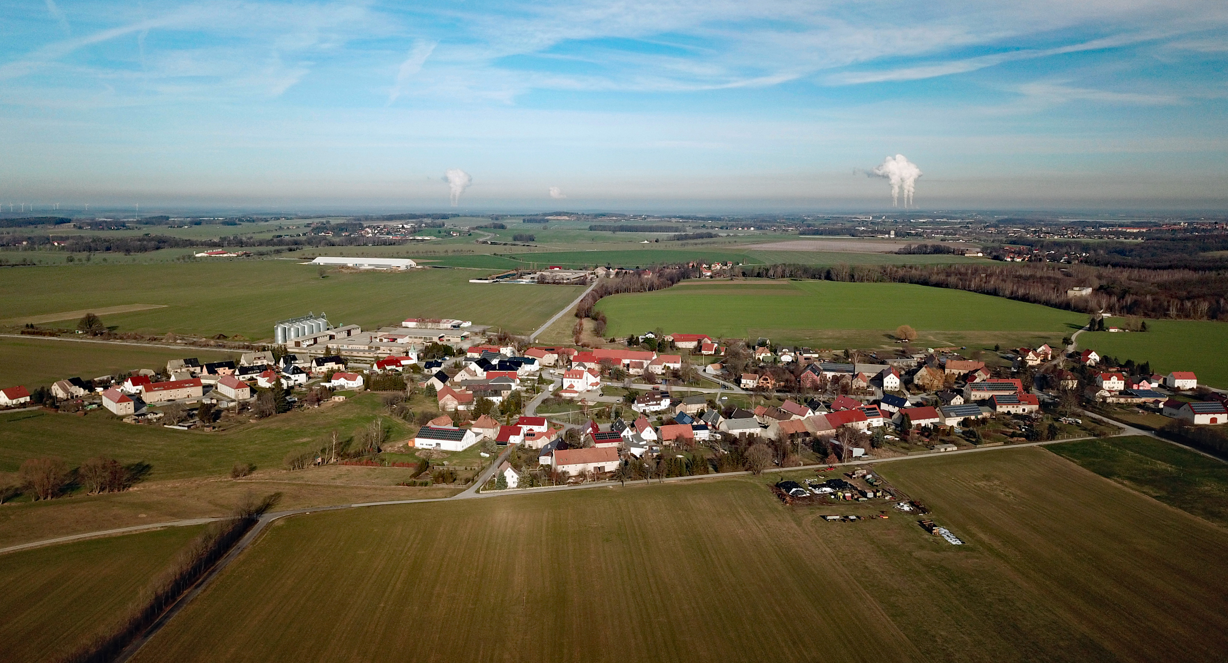 Gnaschwitz (Doberschau-Gaußig, Saxony, Germany) Hornjoserbsce: Powětrowy wobraz Hnašec